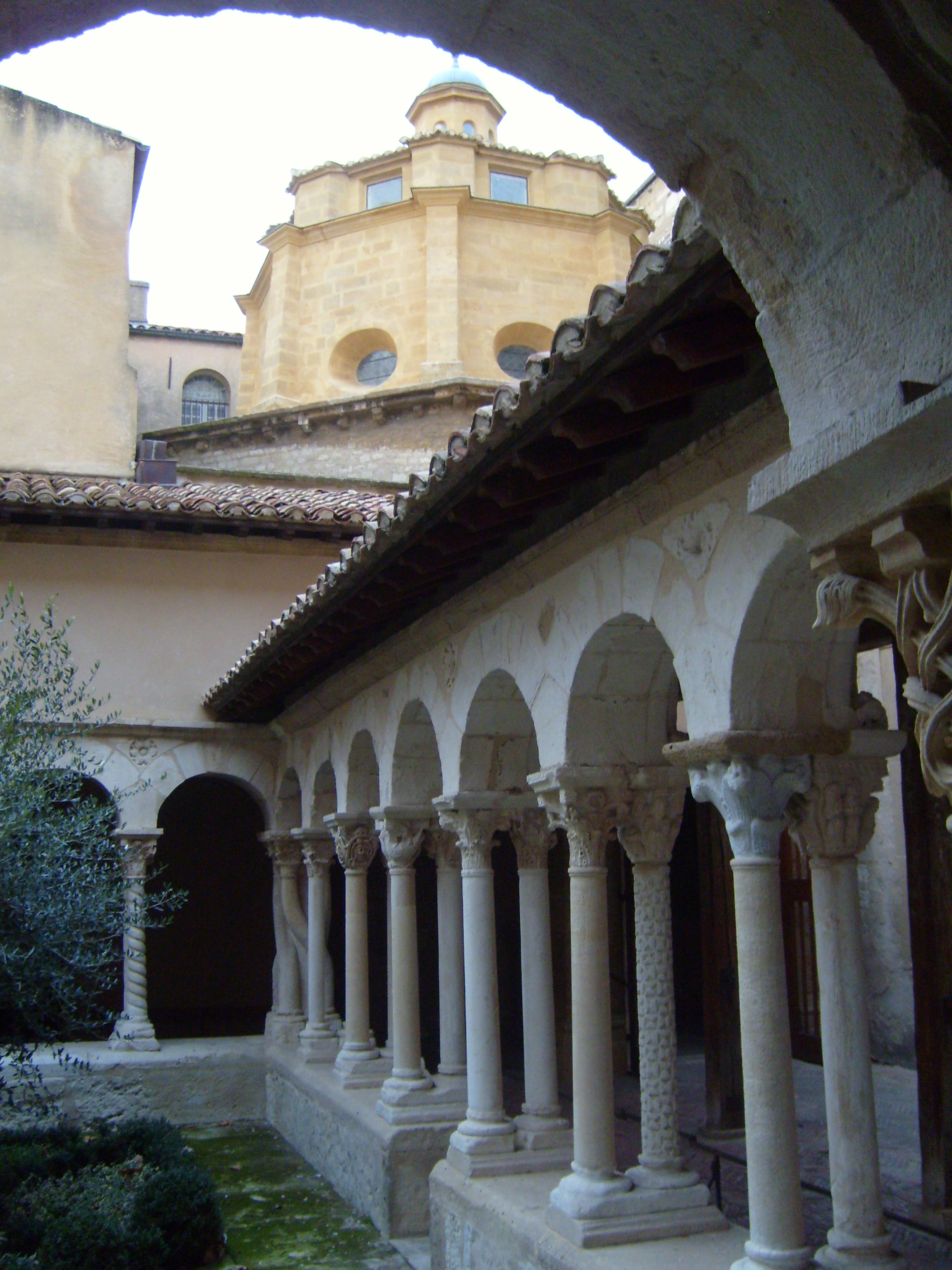 Baptistery seen from Cloister, Aix Cathedral, Aix-en-Provence, France